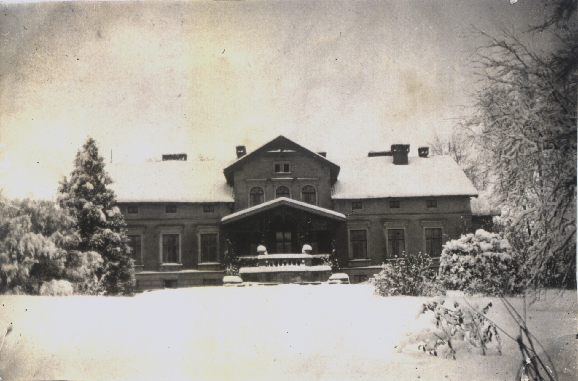 Castle of Dominium Rosoggen (Landkreis Sensburg, Prussia), today: Rozogi, Powiat Mrągowski, Poland